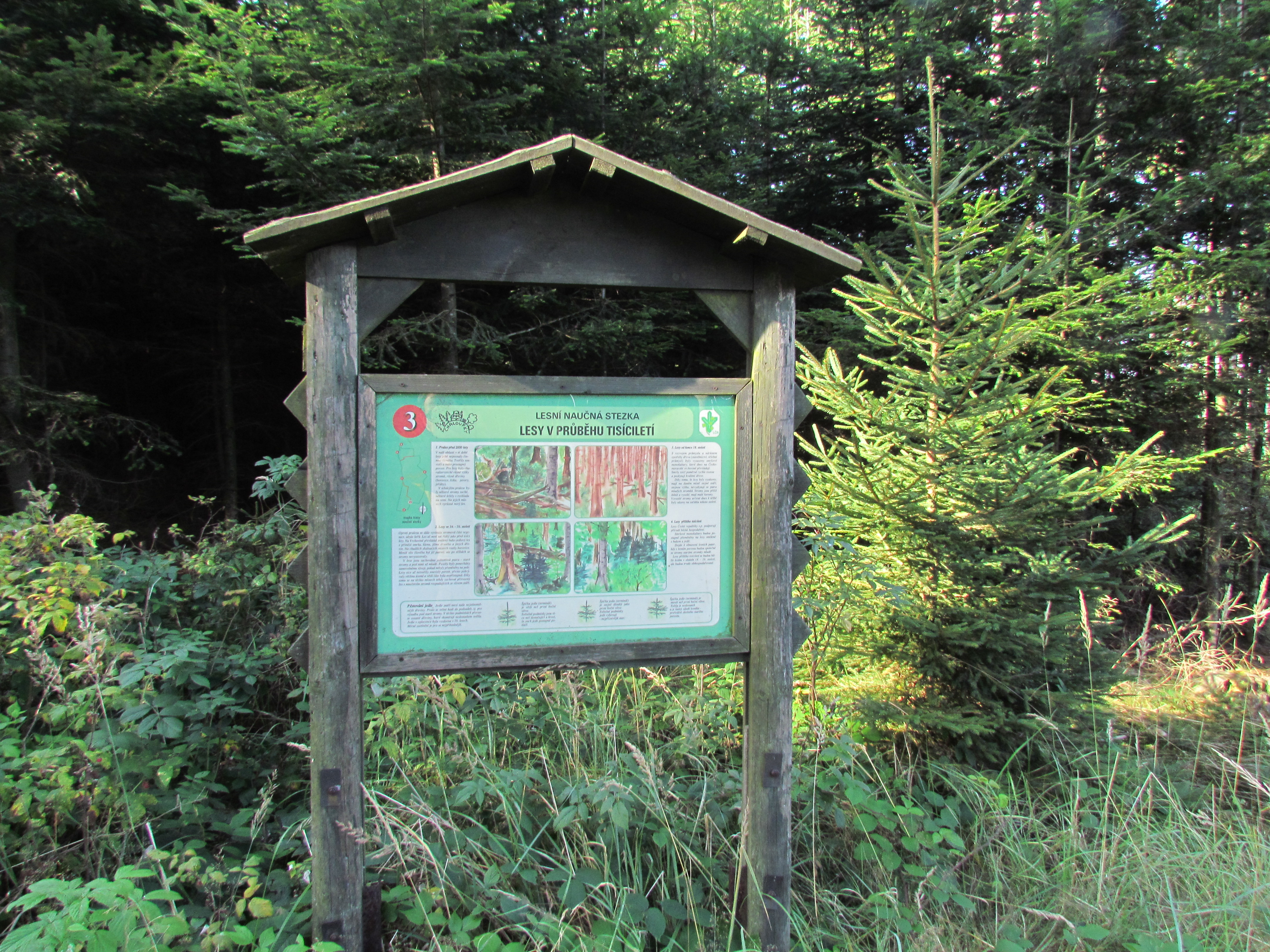 Infopanel of Forest educational trail of Chaloupky castle in Kněžice, Jihlava District.